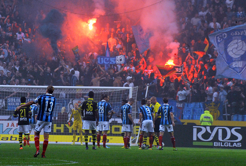 Djurgårdens IF Fans